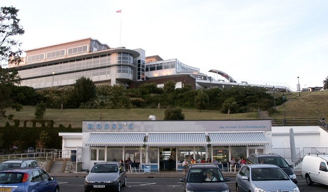 The Iconic Rossi's Ice Cream parlour One of the most famous landmarks in Southend. The iconic Ross'i Ice Cream Parlour, overlooked by the Cliffs Pavilion.